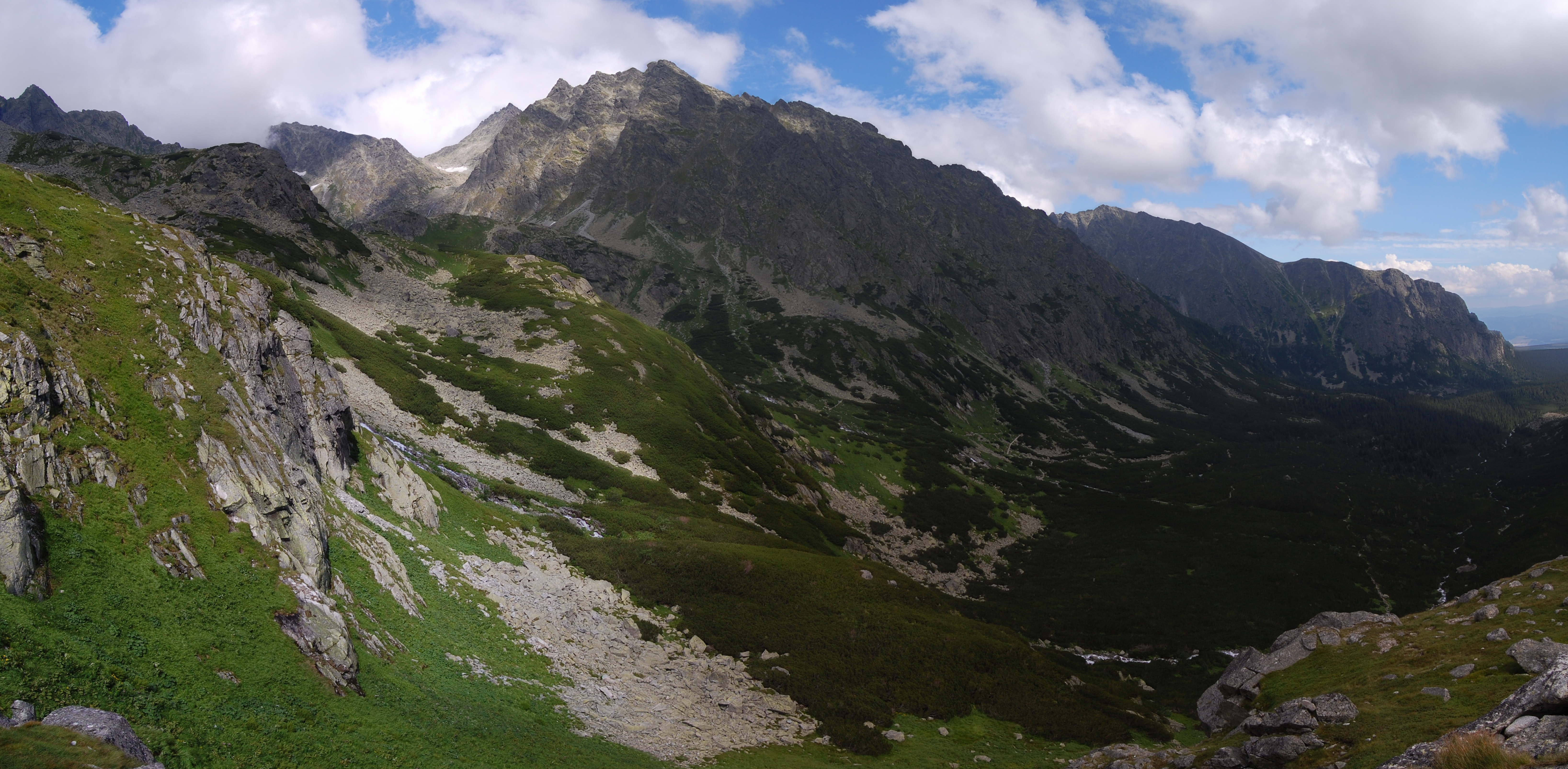 View of west part of Mengusovská dolina, High Tatras, Slovakia.